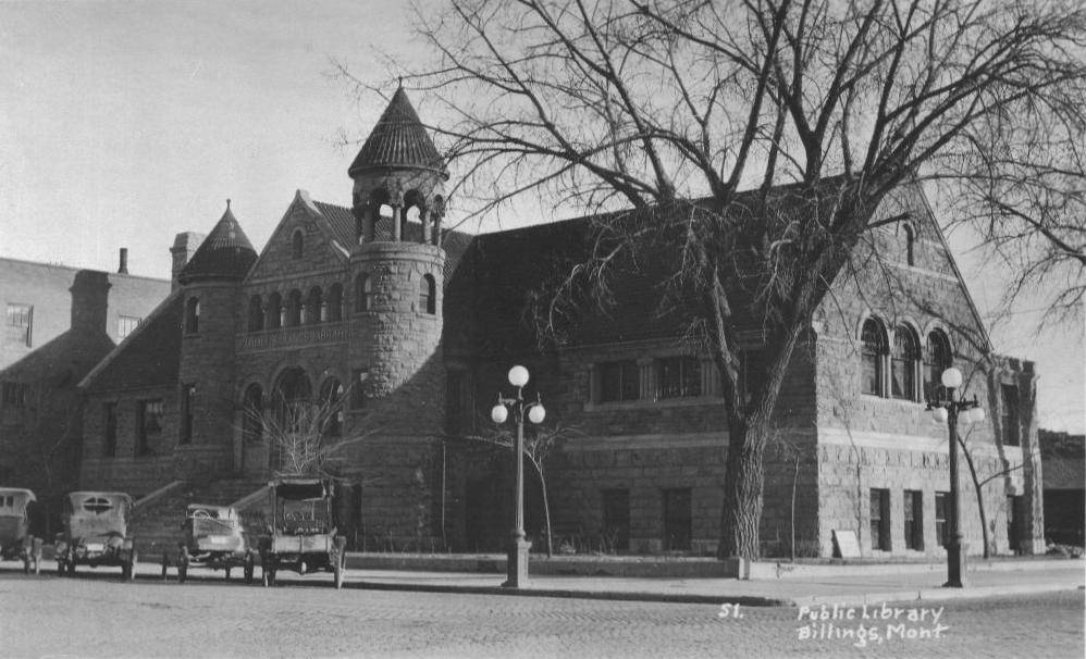 The Parmly Billings Memorial Library building (now the Western Heritage Center) in Billings, MT, USA around the year 1920.